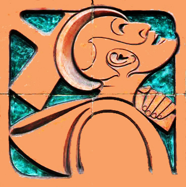 Jachthuis_Sint-Hubertus